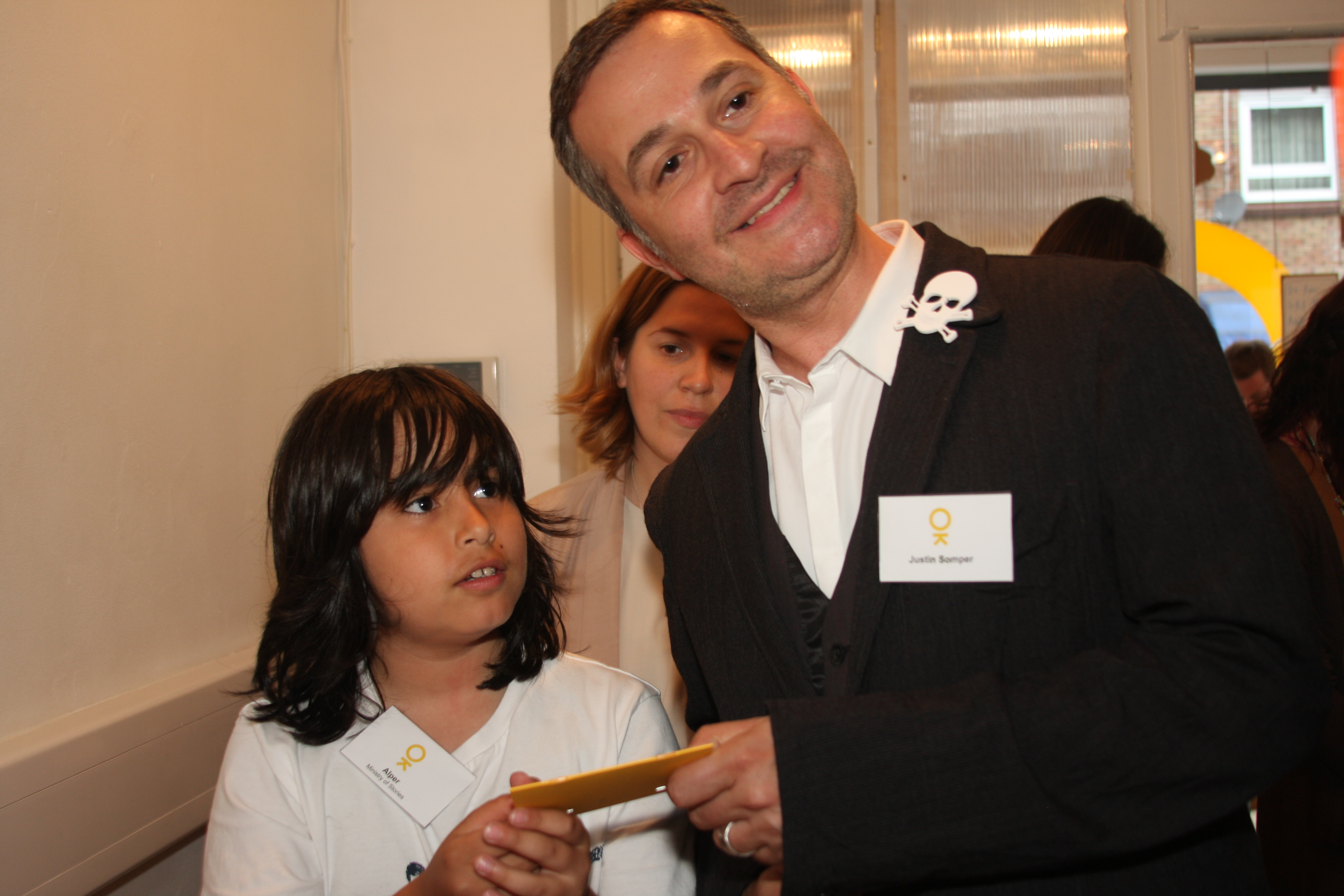 Justin Somper receives a Children's Republic of Shoreditch passport